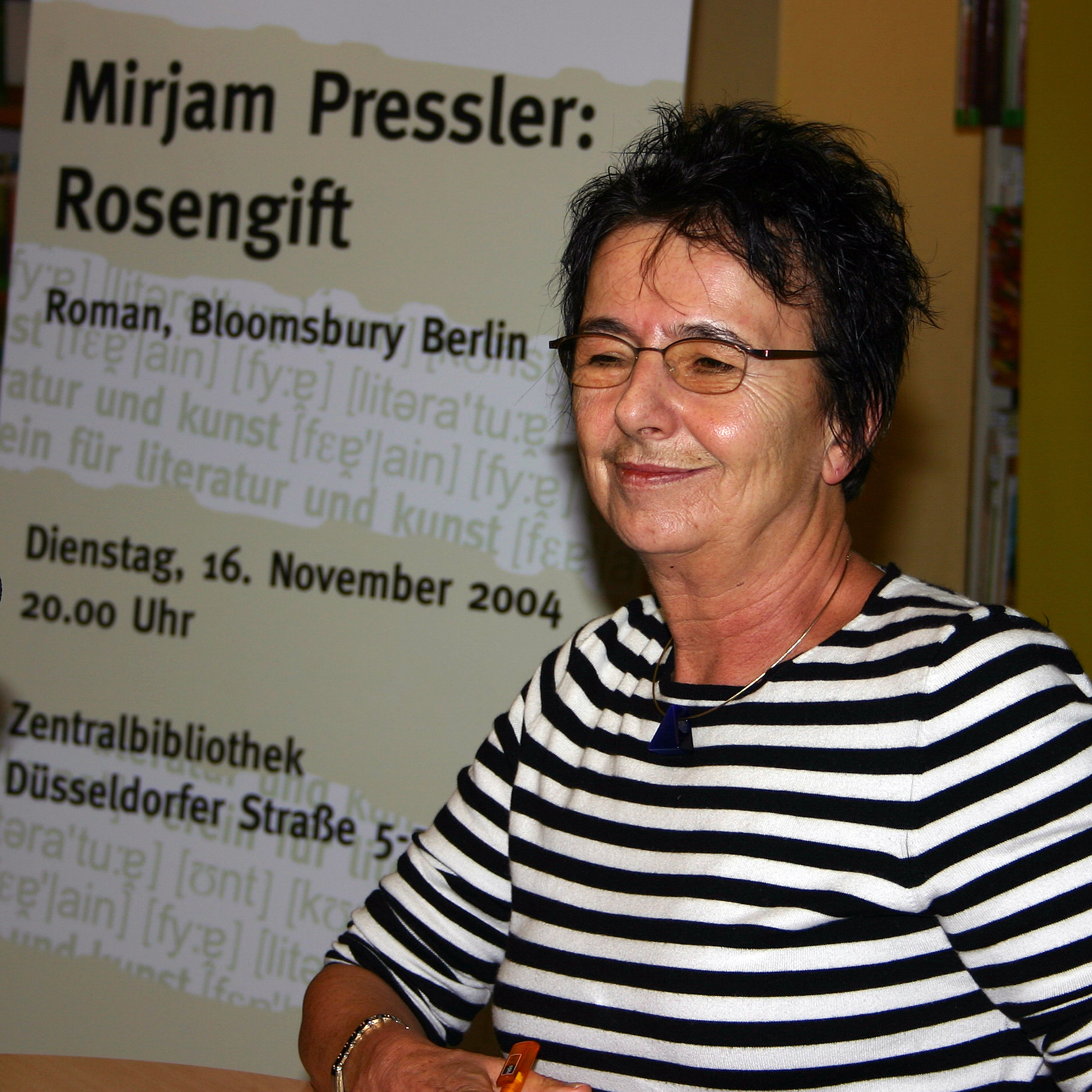 Mirjam Pressler, writer and translator, after a reading of her novel „Rosengift“ in a library in Duisburg, 2004. (Part of the original photo; photographed by BlackIceNRW.)